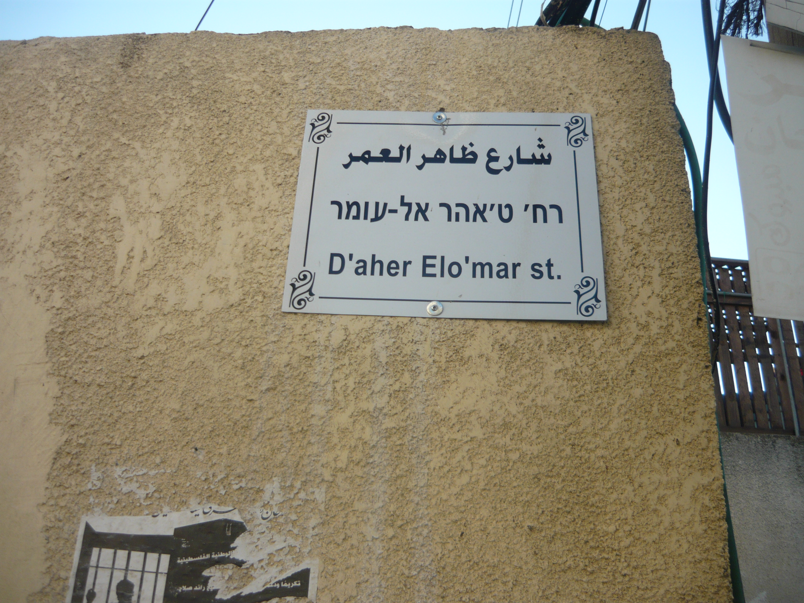 street sign in Arrabe - "Daher El Omar St." שלט המראה על רח' דאהר אל עומר בעראבה